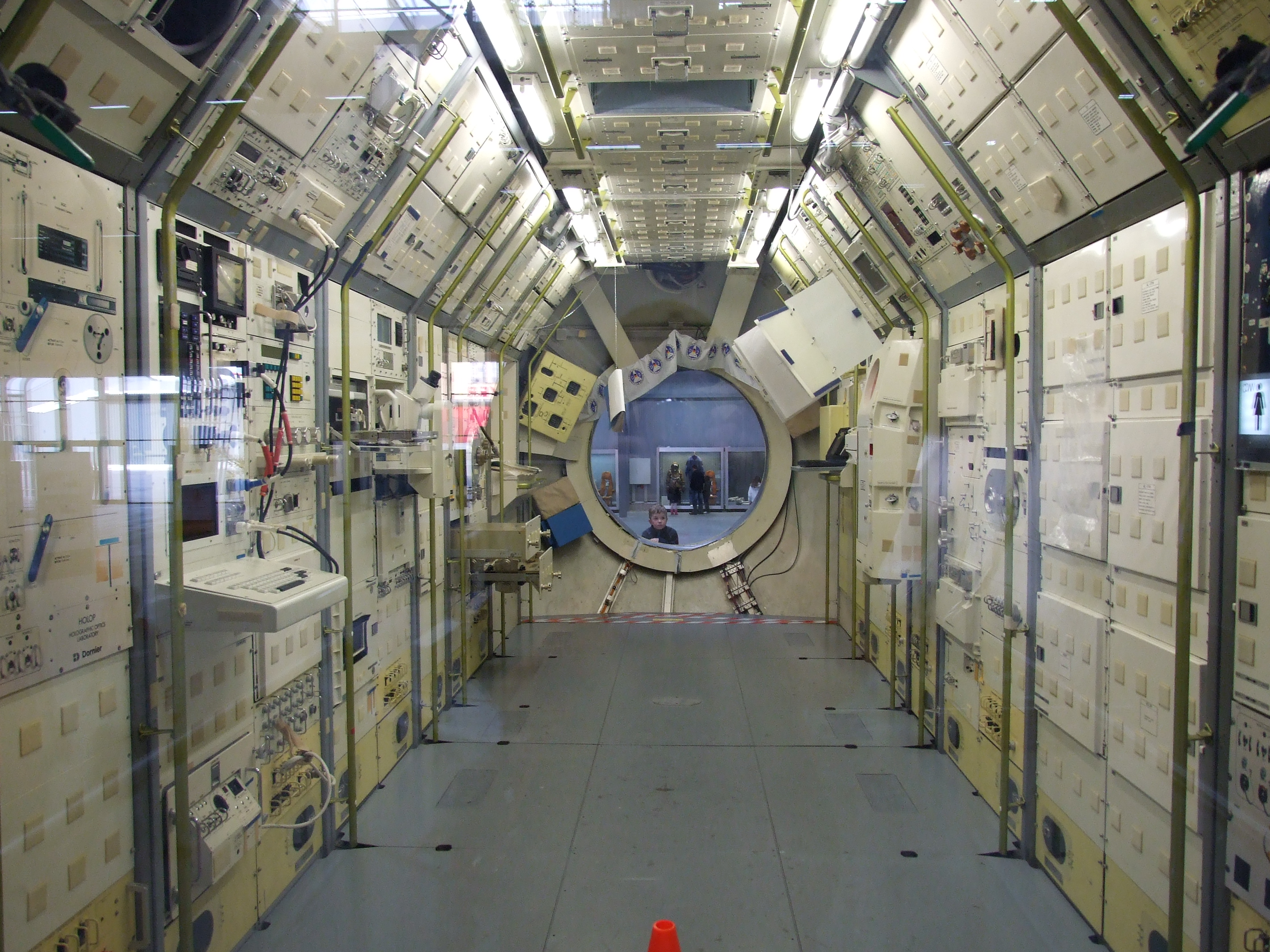 German Spacelab used for D-1 and D-2 missions grounded in Technikmuseum Speyer